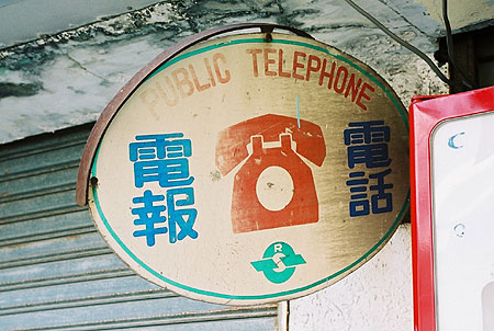 RTT(Ryukyu Telegraph and Telephone Public Corporation) Public Telephone